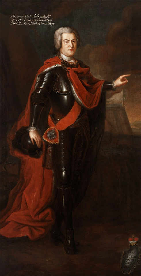 Prince Jan Kazimierza Lubomirski